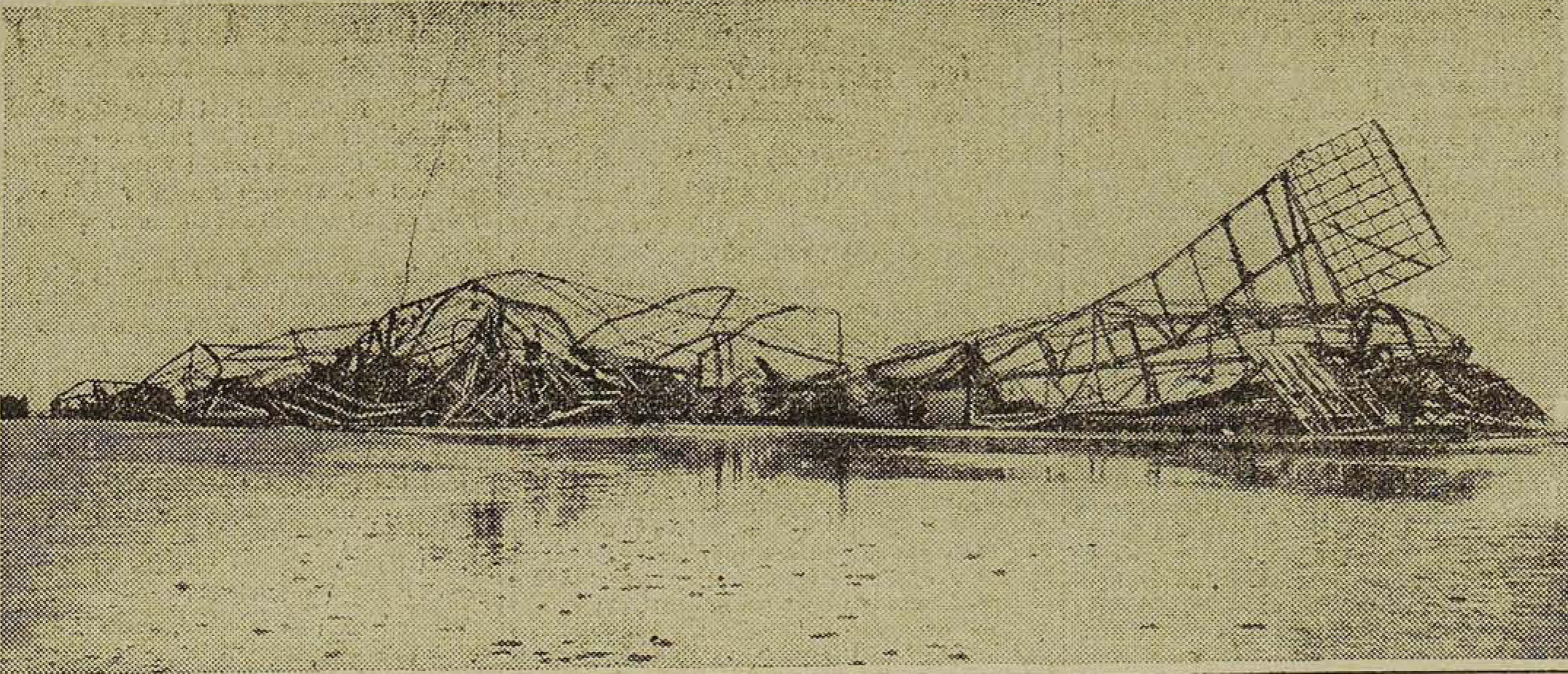 The Wreckage of Zeppelin L3 photographed at low tide on the Danish island of Fanoe (Fanø) c1915